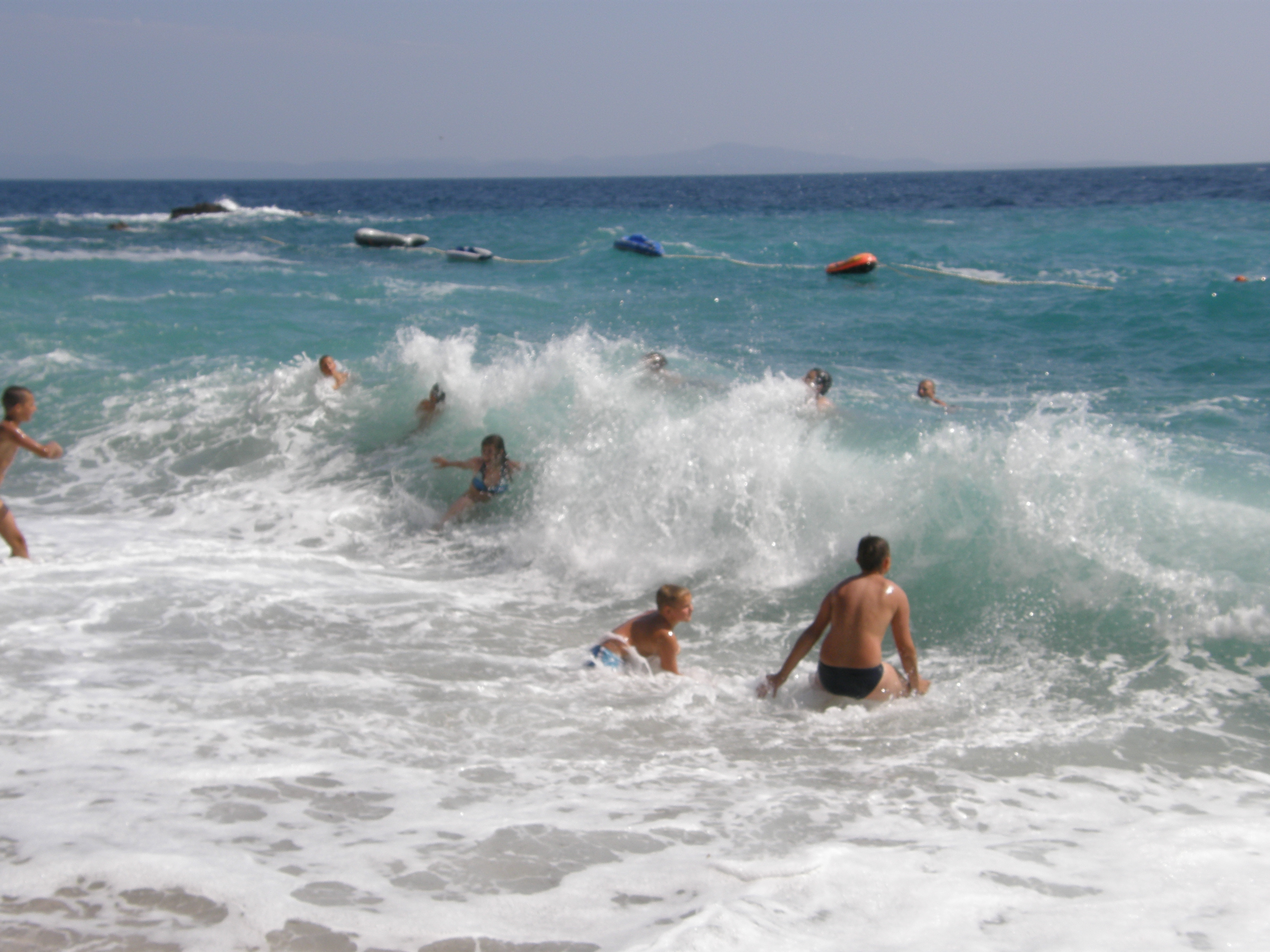 Jagodna beach on the island of Hvar.